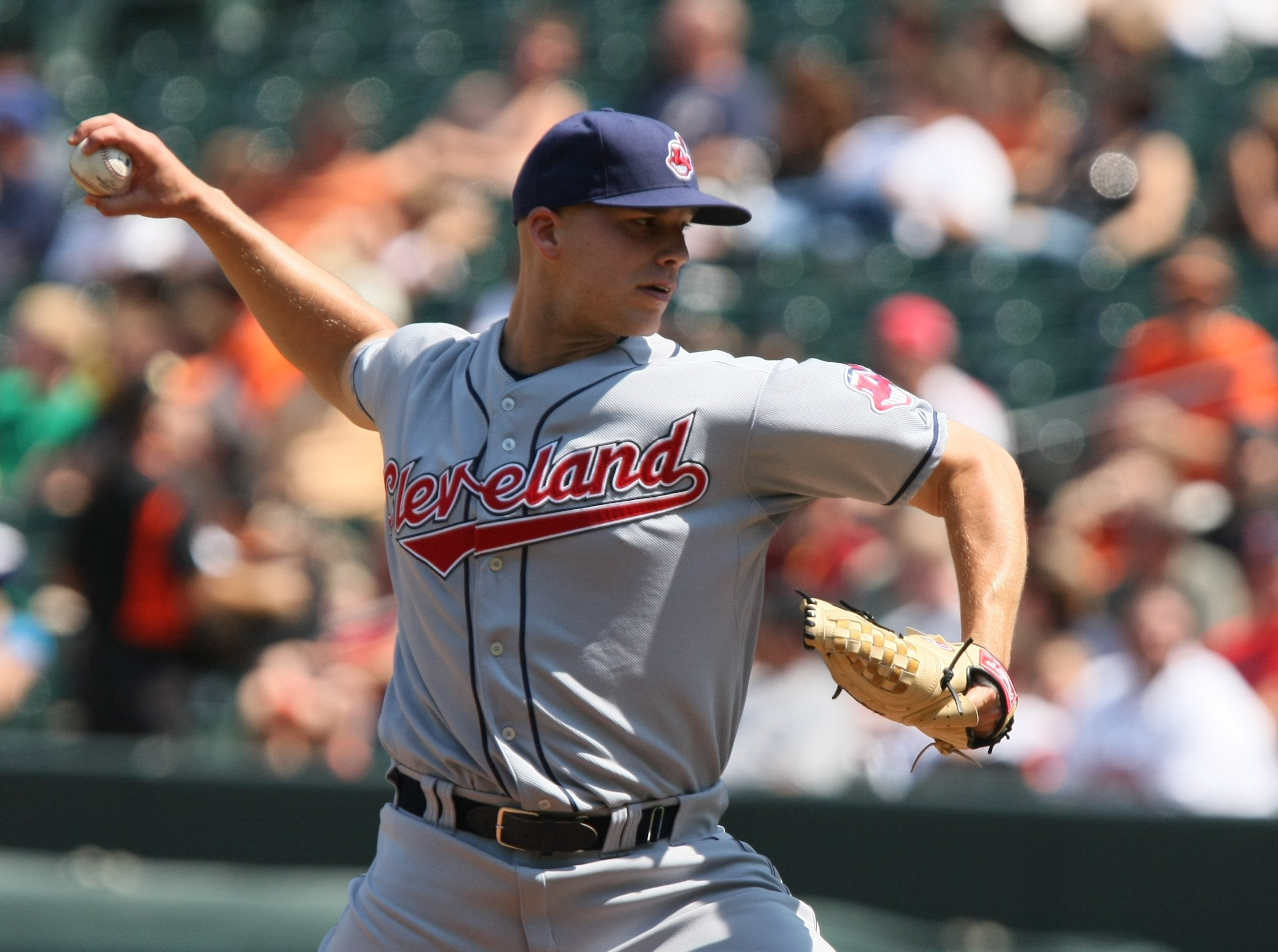 Justin Masterson